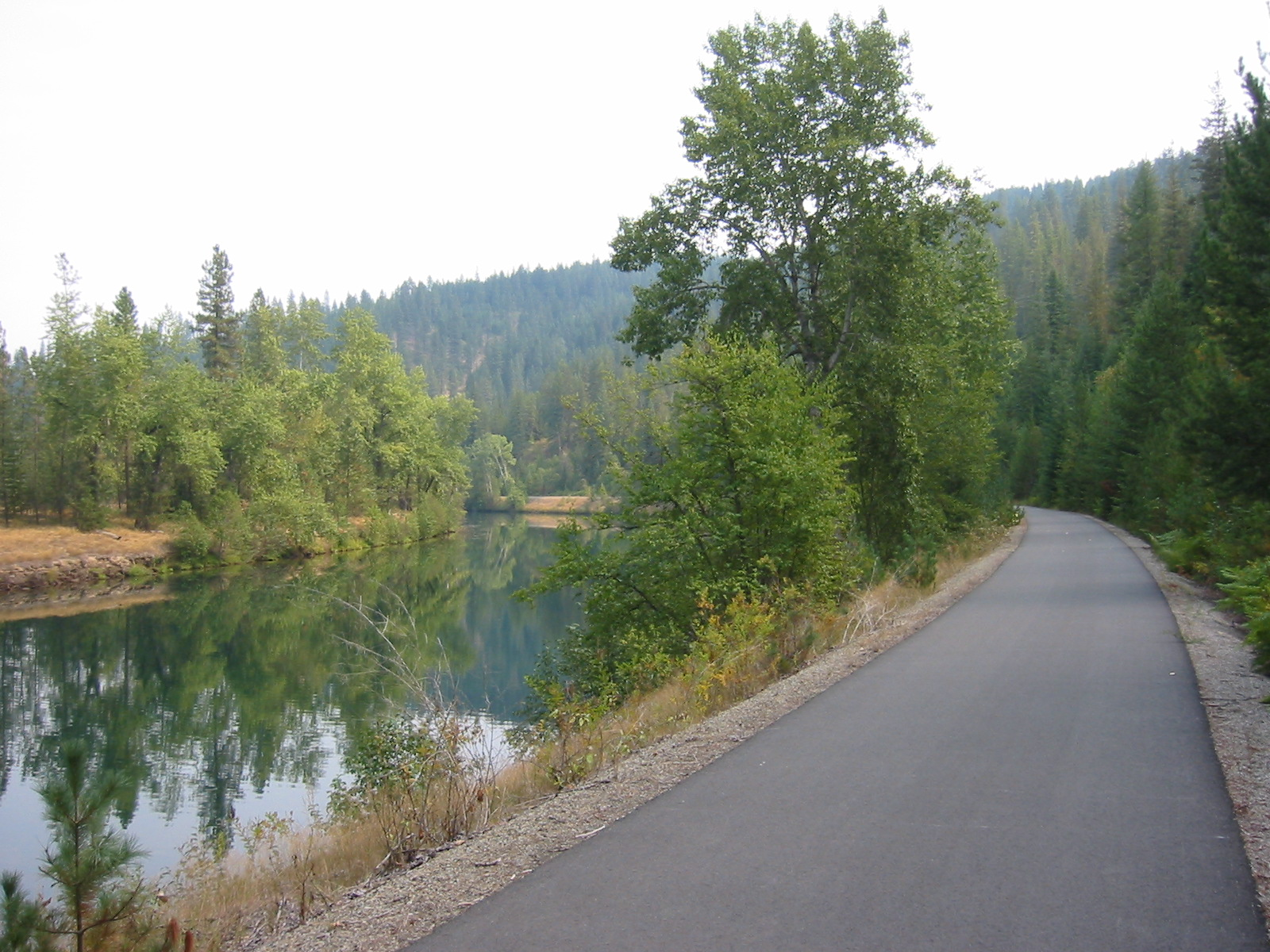 The Trail of the Coeur d'Alenes as it follows the Coeur d'Alene River in Idaho.